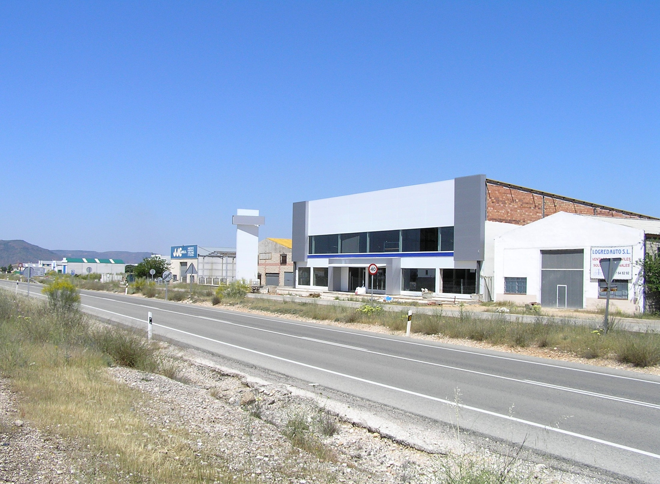 Vista parcial del polígono El Cornicabral